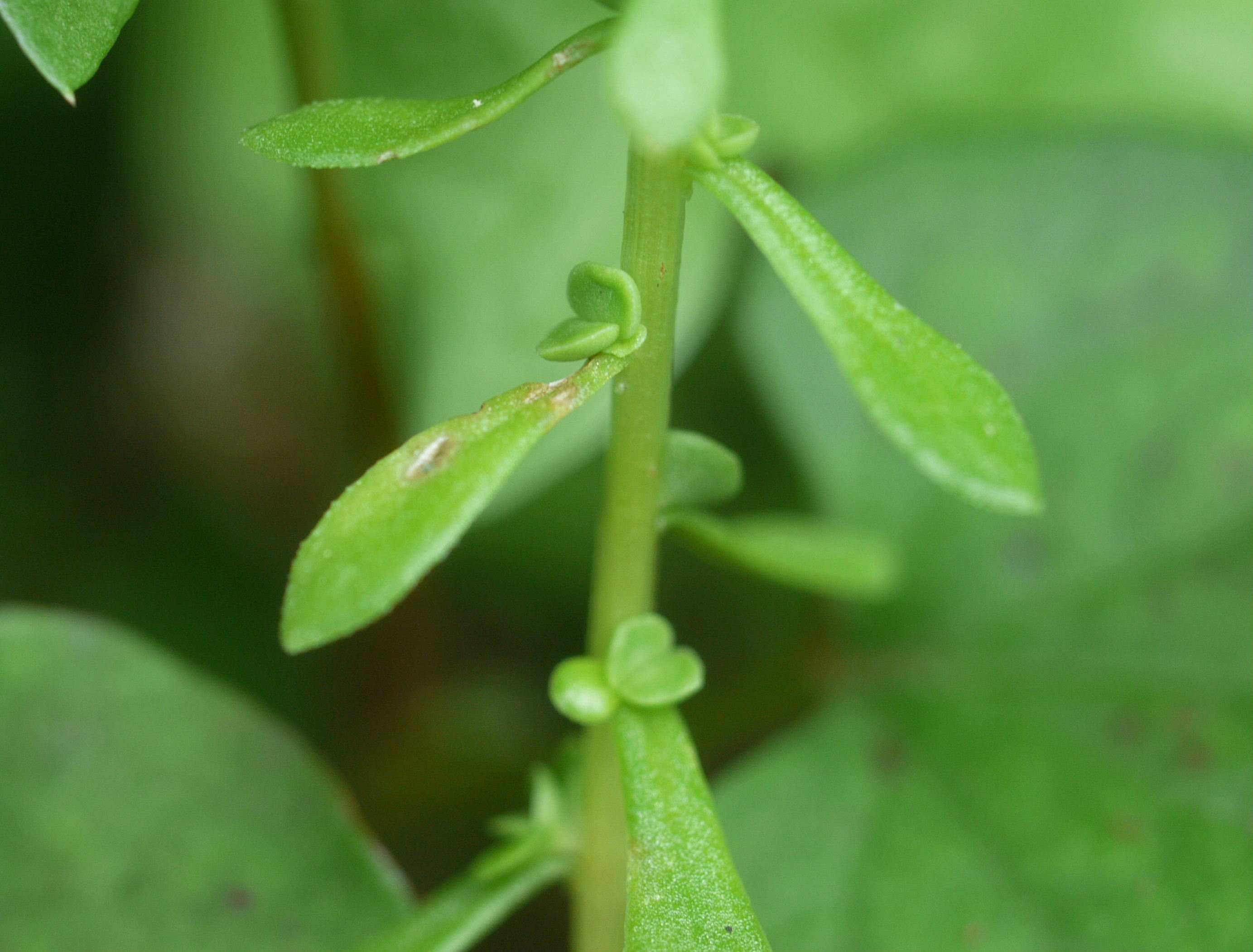 Sedum bulbiferum